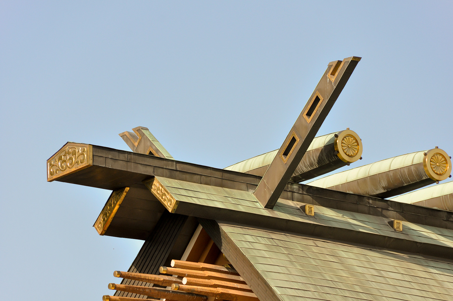 Roof of a Shinto shrine showing chigi and katsuogi